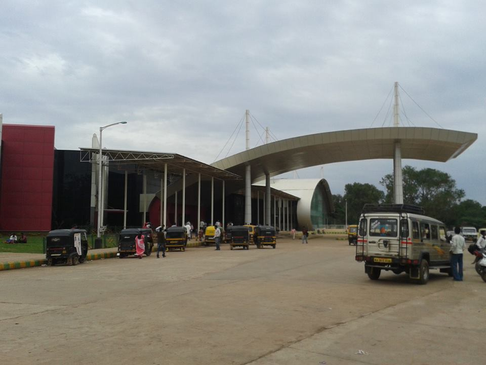 South Western Railway head quarters, Hubli Railway Station